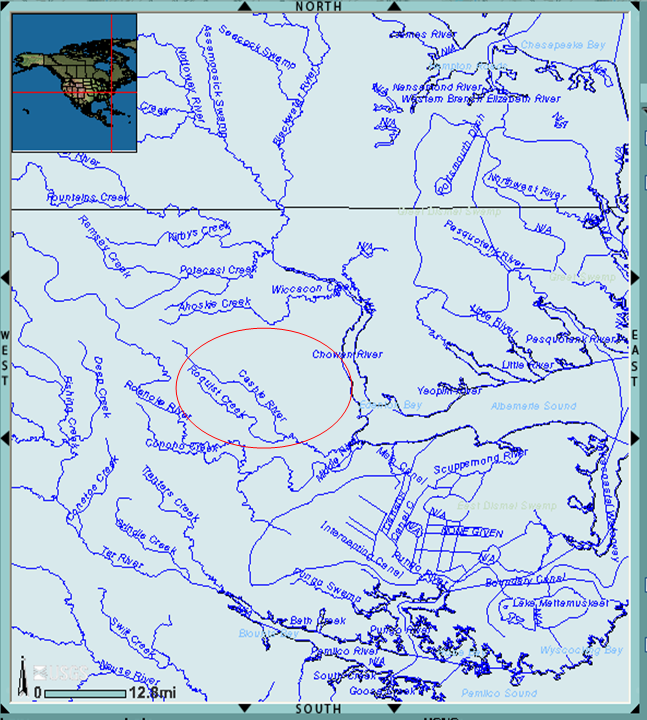 USGS National Map Image with red circle overlay. Created with Microsoft Powerpoint and Paint.